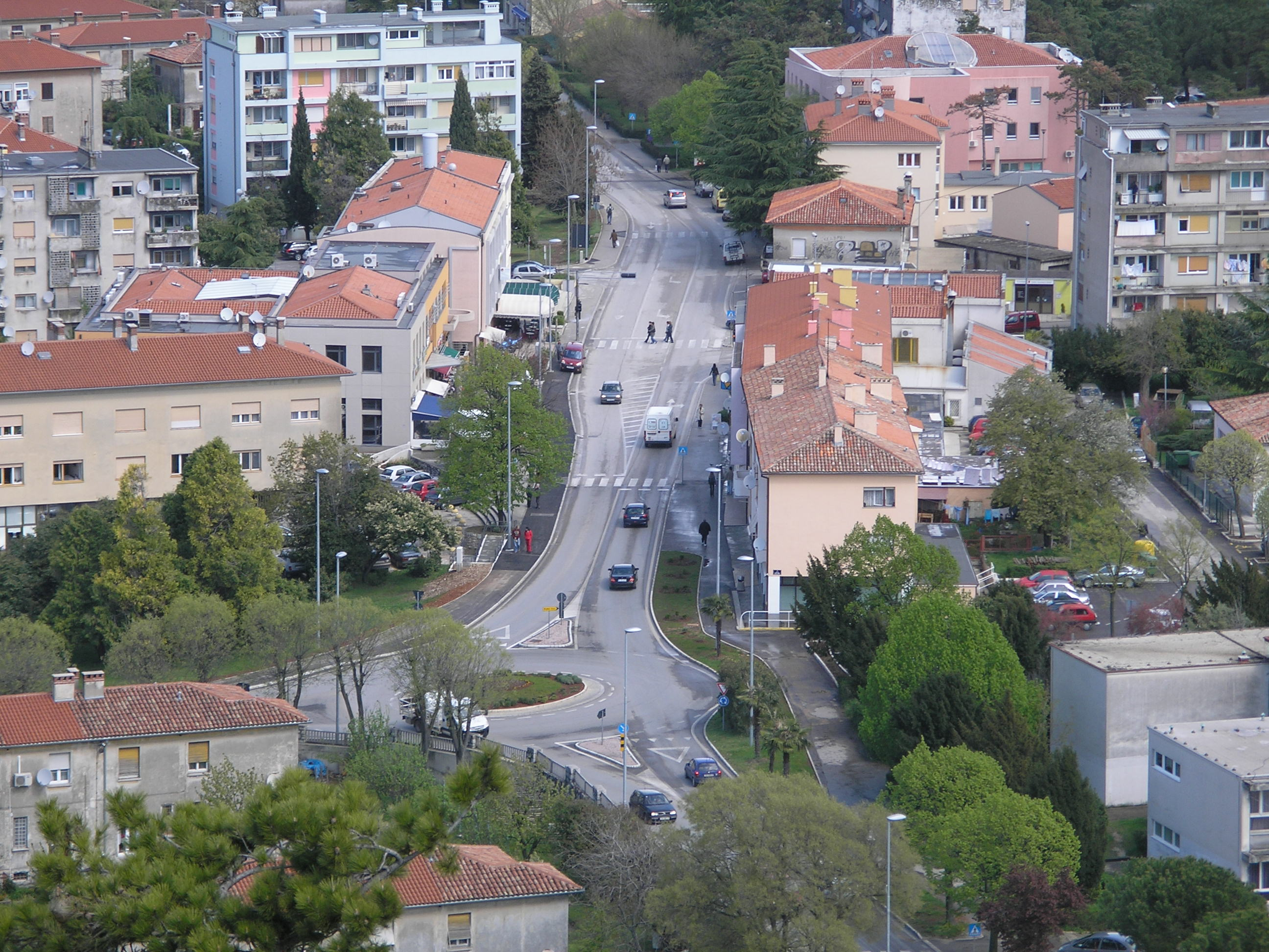 Labin seen from the Old Town